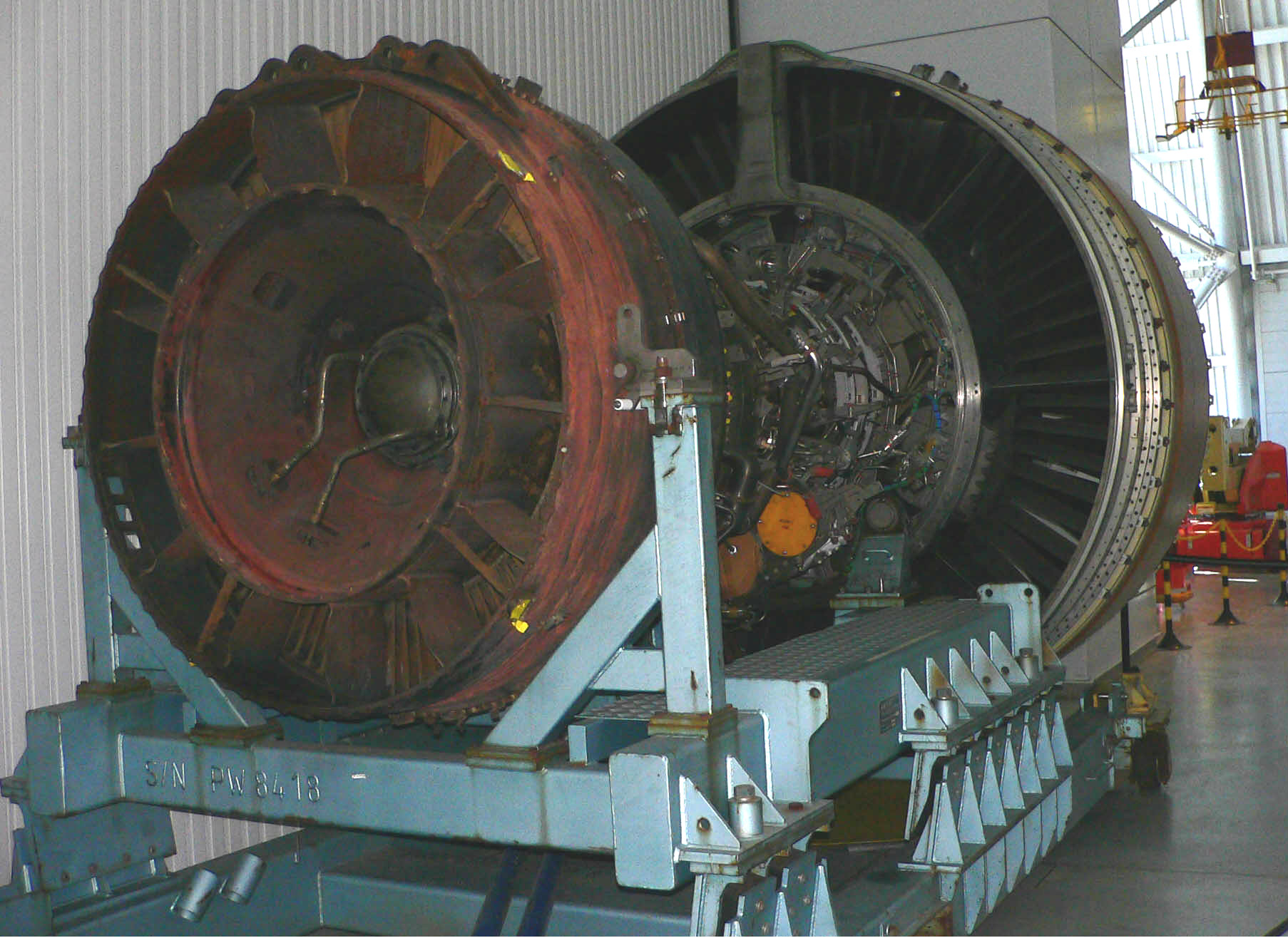 Prat & Whitney PW4098 engine Picture taken in the Steven F. Udvar-Hazy Center (Smithsonian Air and Space museum extension in Dulles, Virginia)